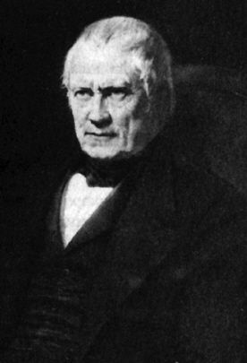 Henri Marie Ducrotay de Blainville (1777-1850), French naturalist